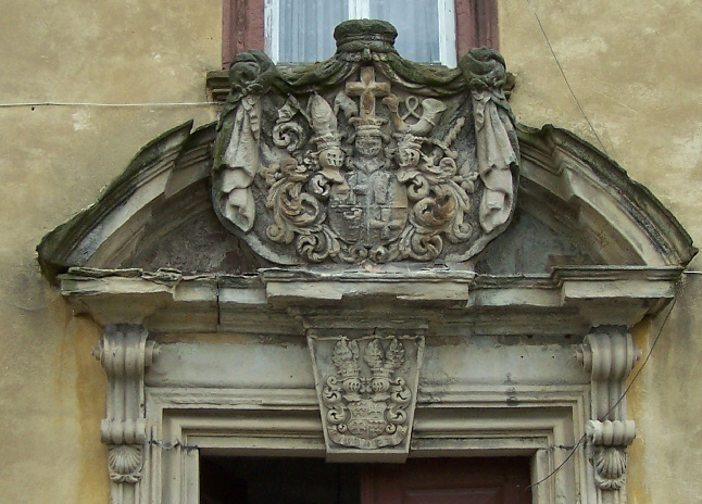 The coats of arms of Konstantin von Buttlar - the upper one - and Freiherr von Dalberg - the lower one at the main gate.